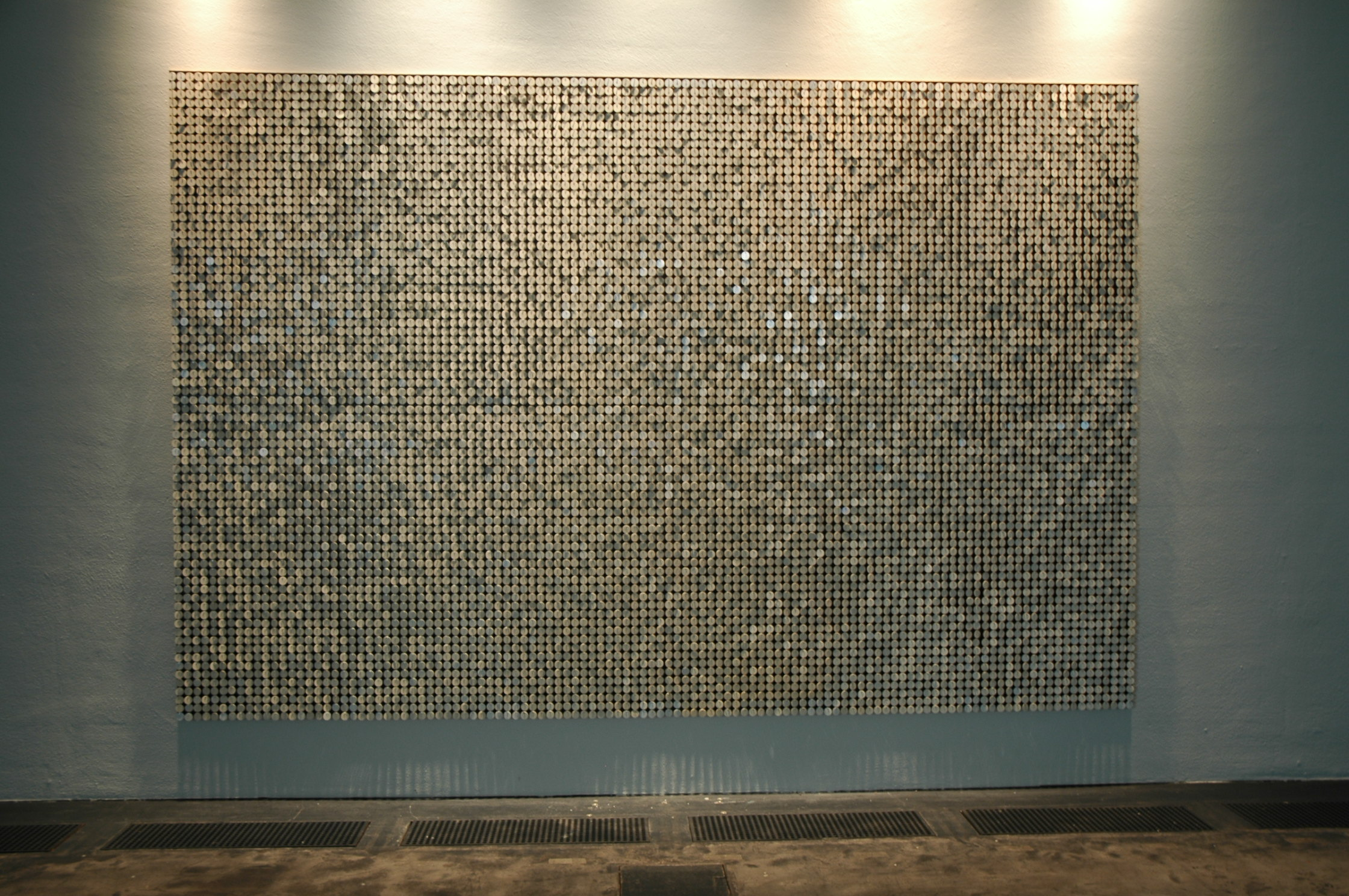 Disturbance an work from Saara Ekström (17. maaliskuuta 1965 Turku)